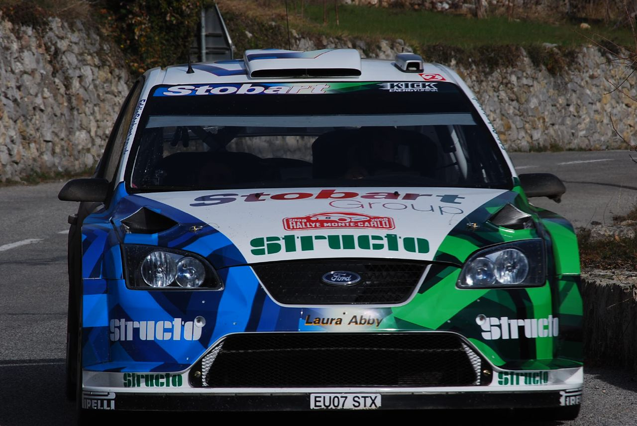 François Duval driving his Ford Focus RS WRC 07 on a road section during the 2008 Monte Carlo Rally.